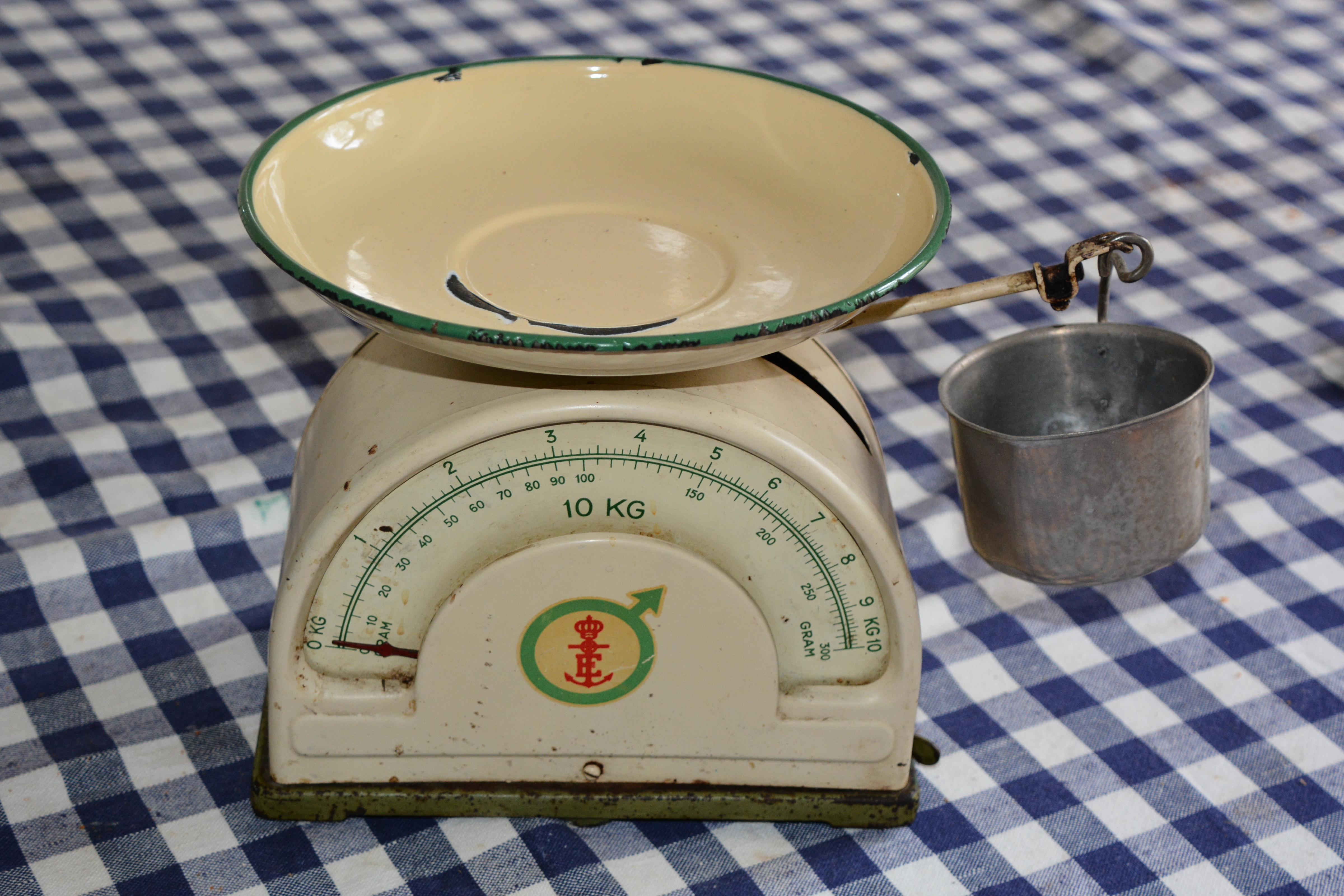 Hushållsvåg Eskilstuna Jernmanufaktur